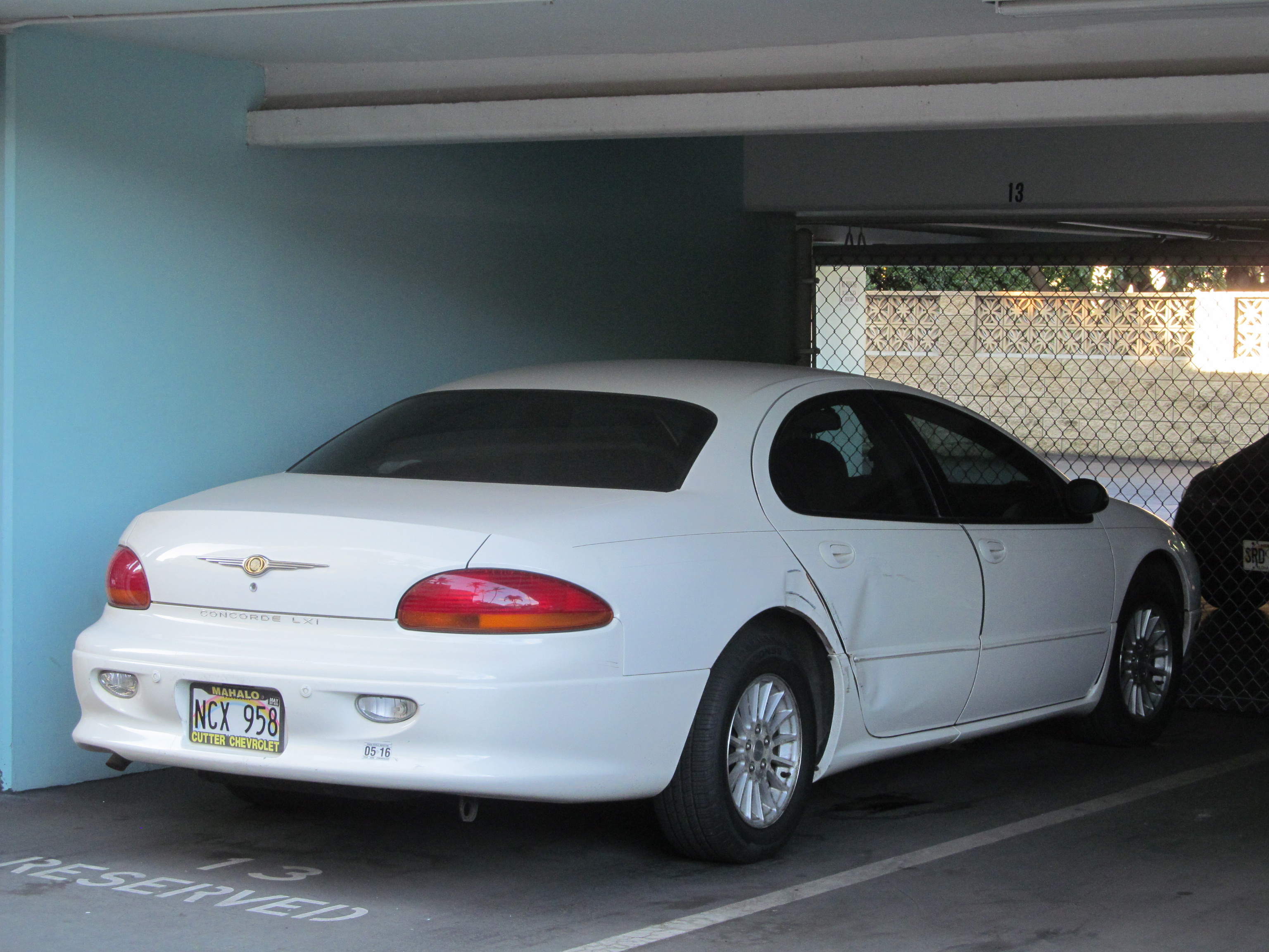 Finally, the vehicular Concorde! I really quite like these 'cab-forward' design Chrysler/Dodges. This, being a 2004, is one of the very last of the model.